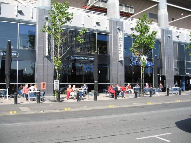 Shearers Bar Shearers bar at St James Park on a warm October day.